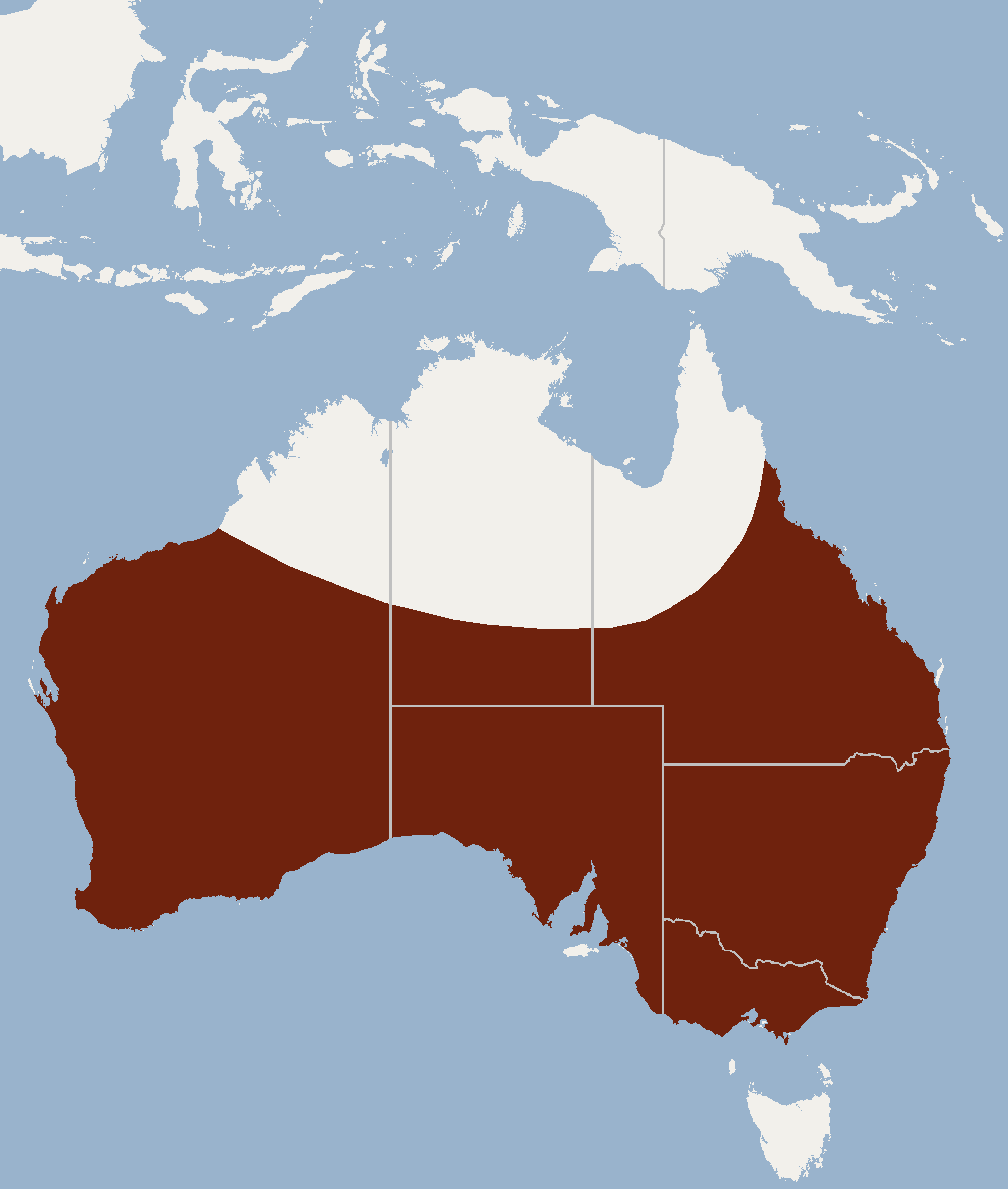 According to Menkhorst & Knight, 2001